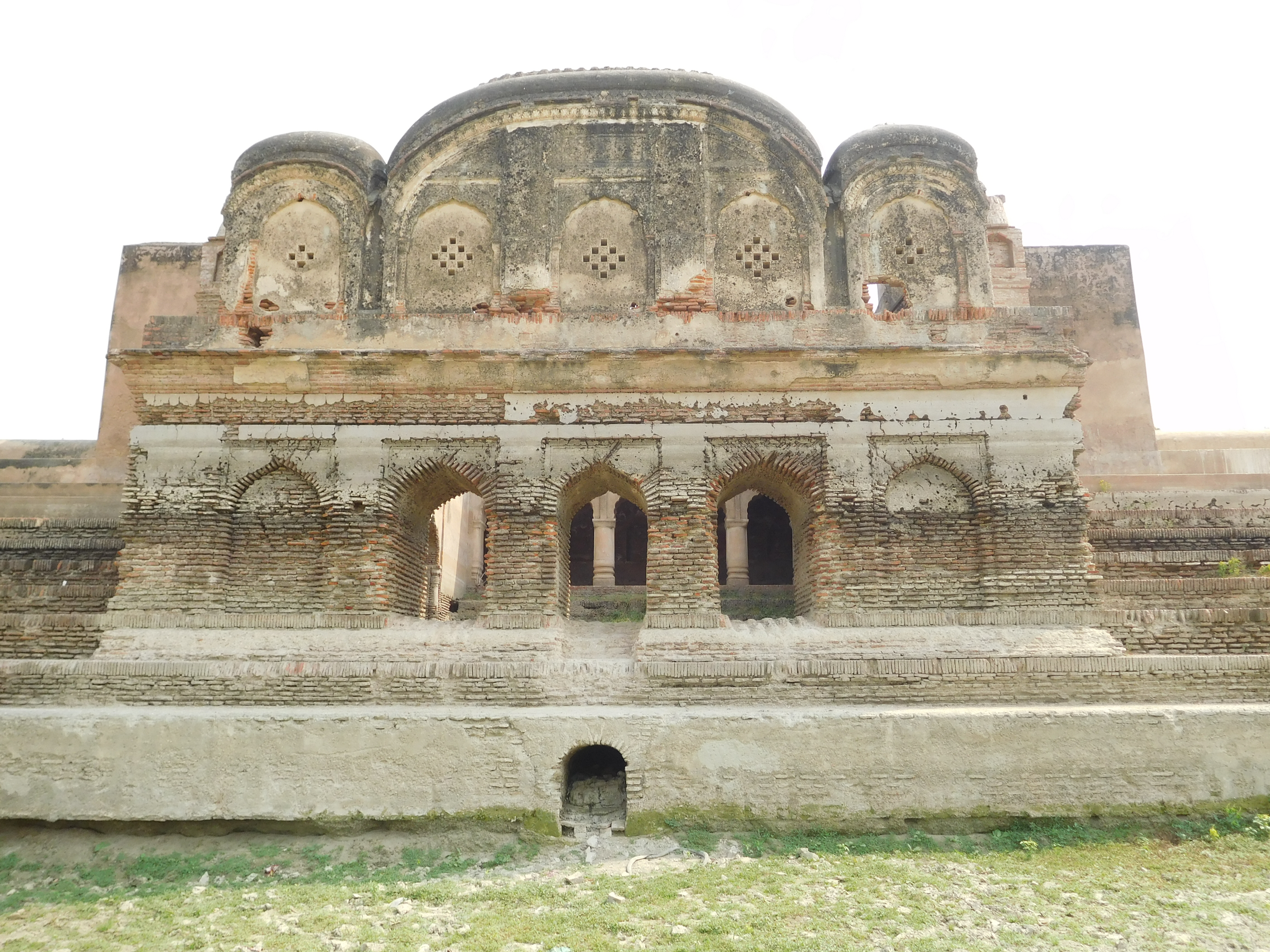 A memorial female bathing house at Shukla Talab, Akbarpur,Kanpur Dehat,Uttar Pradesh,India